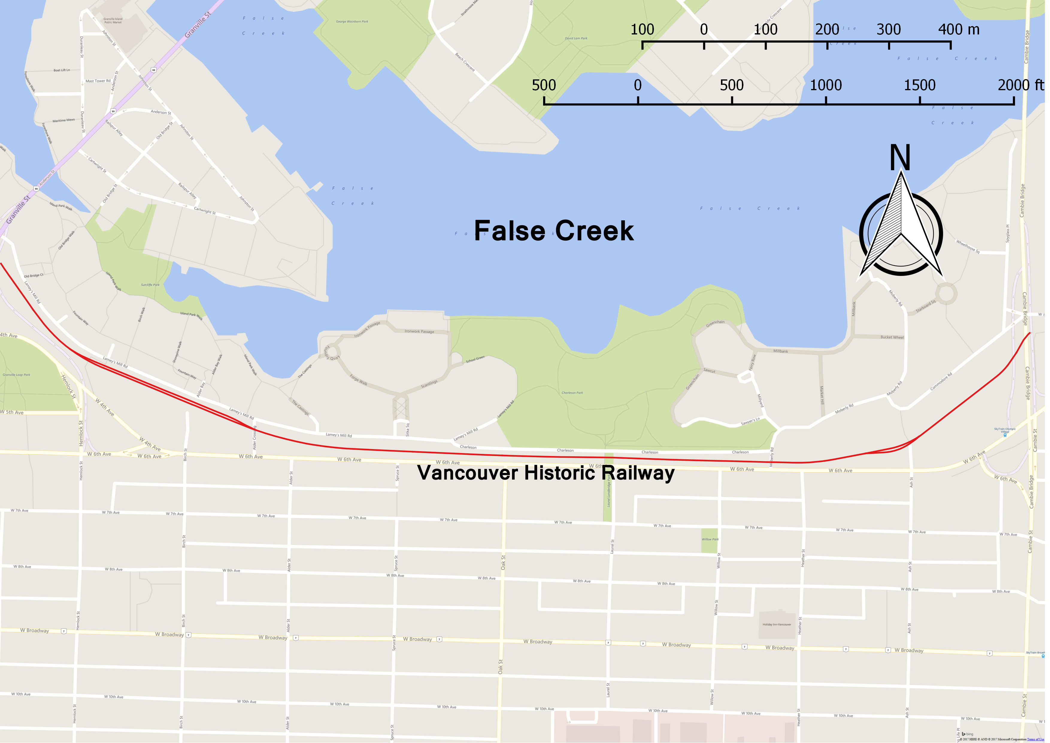 This is a map of the Downtown Vancouver Historic Railway. The map is intended for the Vancouver Historic Railway Wikipedia page The data was sourced from the City of Vancouver Opendata website. And it was made on QGIS with the Openlayers Bing Road base map.